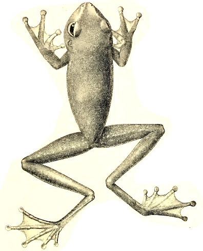 Holotype of Nyctimystes montanus. Illustration from the original species description by Wilhelm Peters and Giacomo Doria (1878).